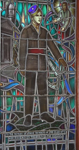 Memorial Stained Glass window, Class 1942, Royal Military College of Canada, Kingston Ontario, Canada